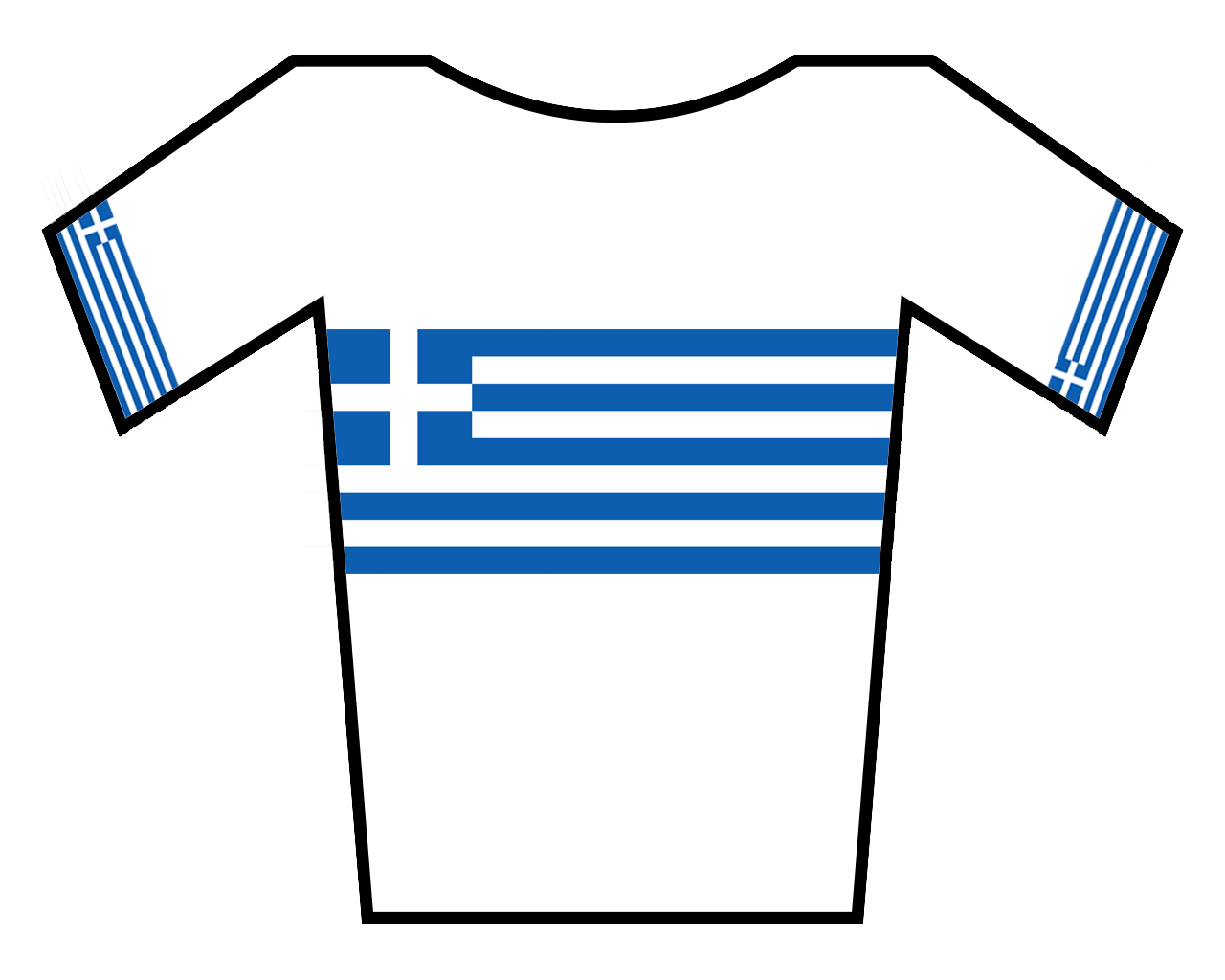 Greek national champion jersey